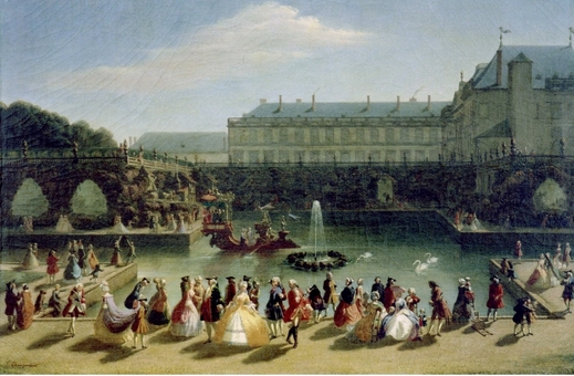 Fête à Lunéville en 1742 par Laurent Charpentier